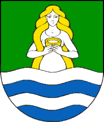 Coat of arms of Dudince, Slovakia